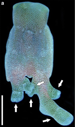 Image of a live specimen of Convolutriloba retrogemma reproducing asexually by budding. White arrowheads point to buds. Note the reversed polarity.